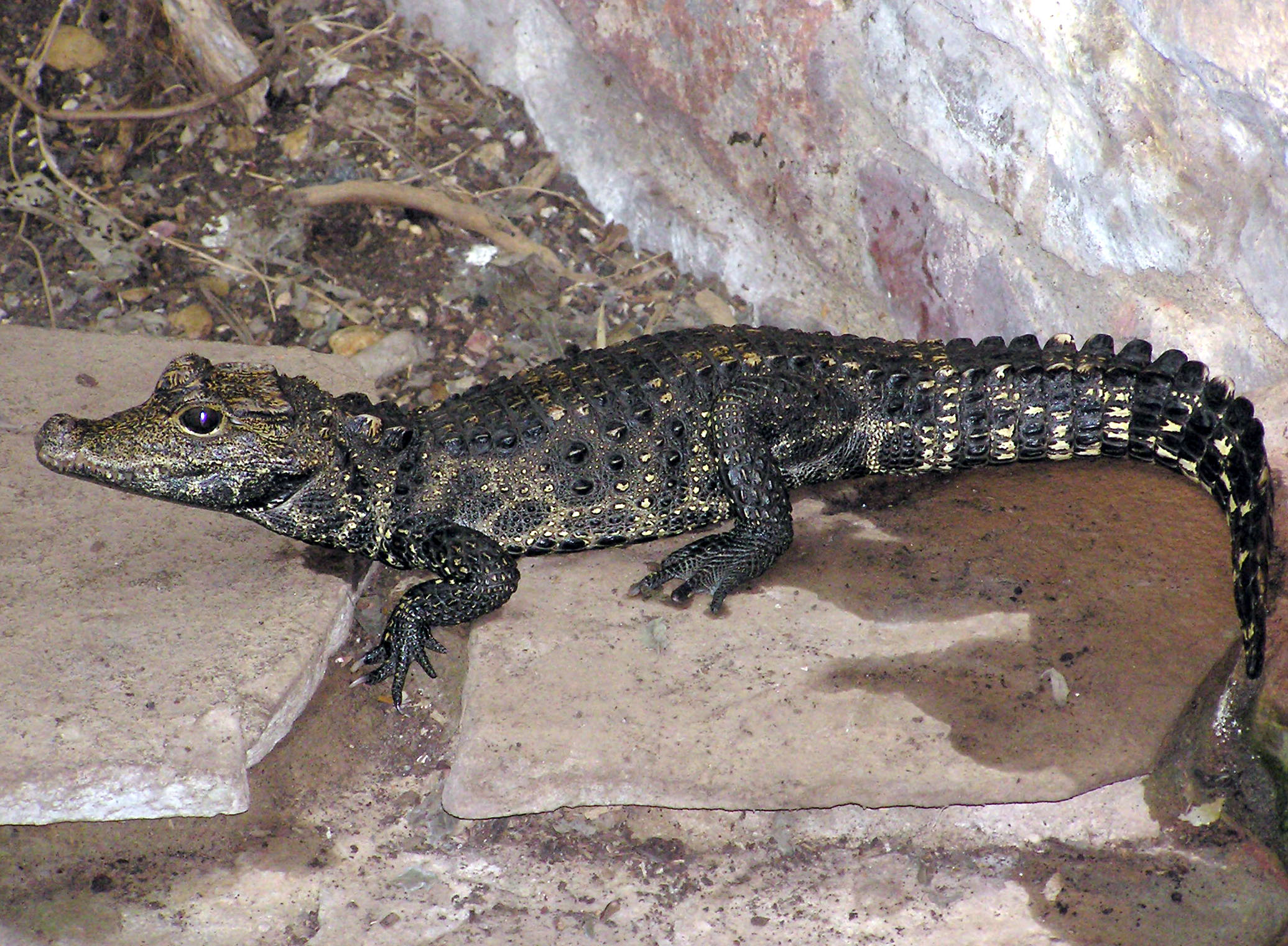 West African dwarf crocodile Osteolaemus tetraspis tetraspis at Bristol Zoo, Bristol, England. Lives in small pools in the dense tropical forests of West Africa. Eats small mammals, fish and invertebrates. Grows to 1.5 to 2.0 metres.